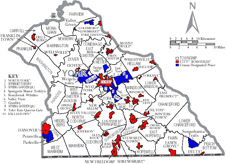 Map of York County, Pennsylvania, United States with township and municipal boundaries